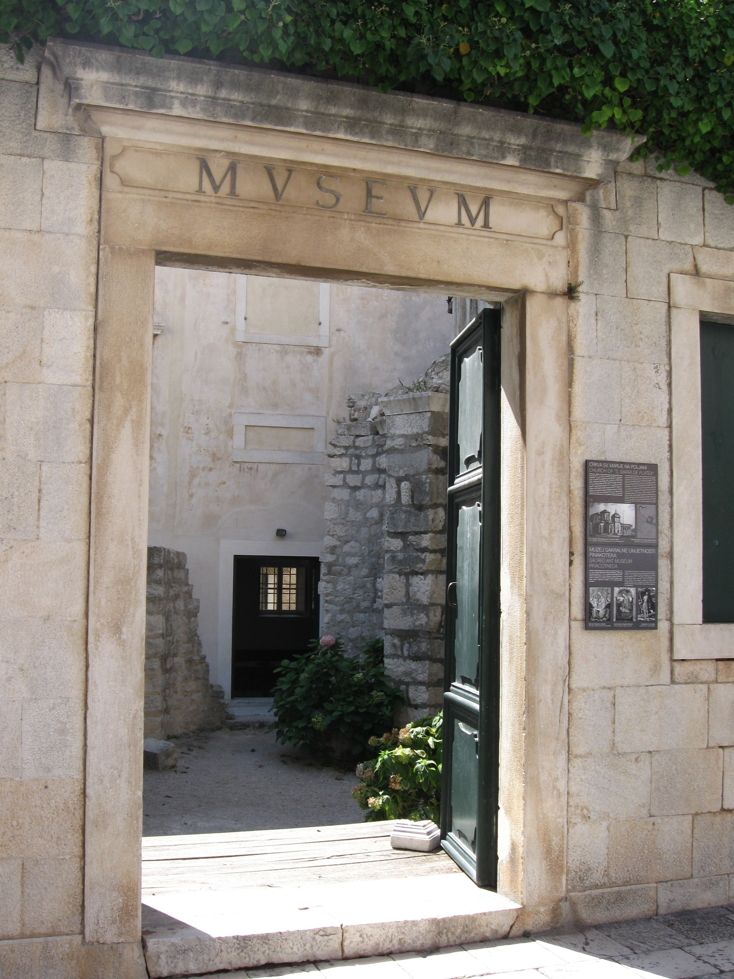 Sacred Art Museum of Trogir. Entrance.